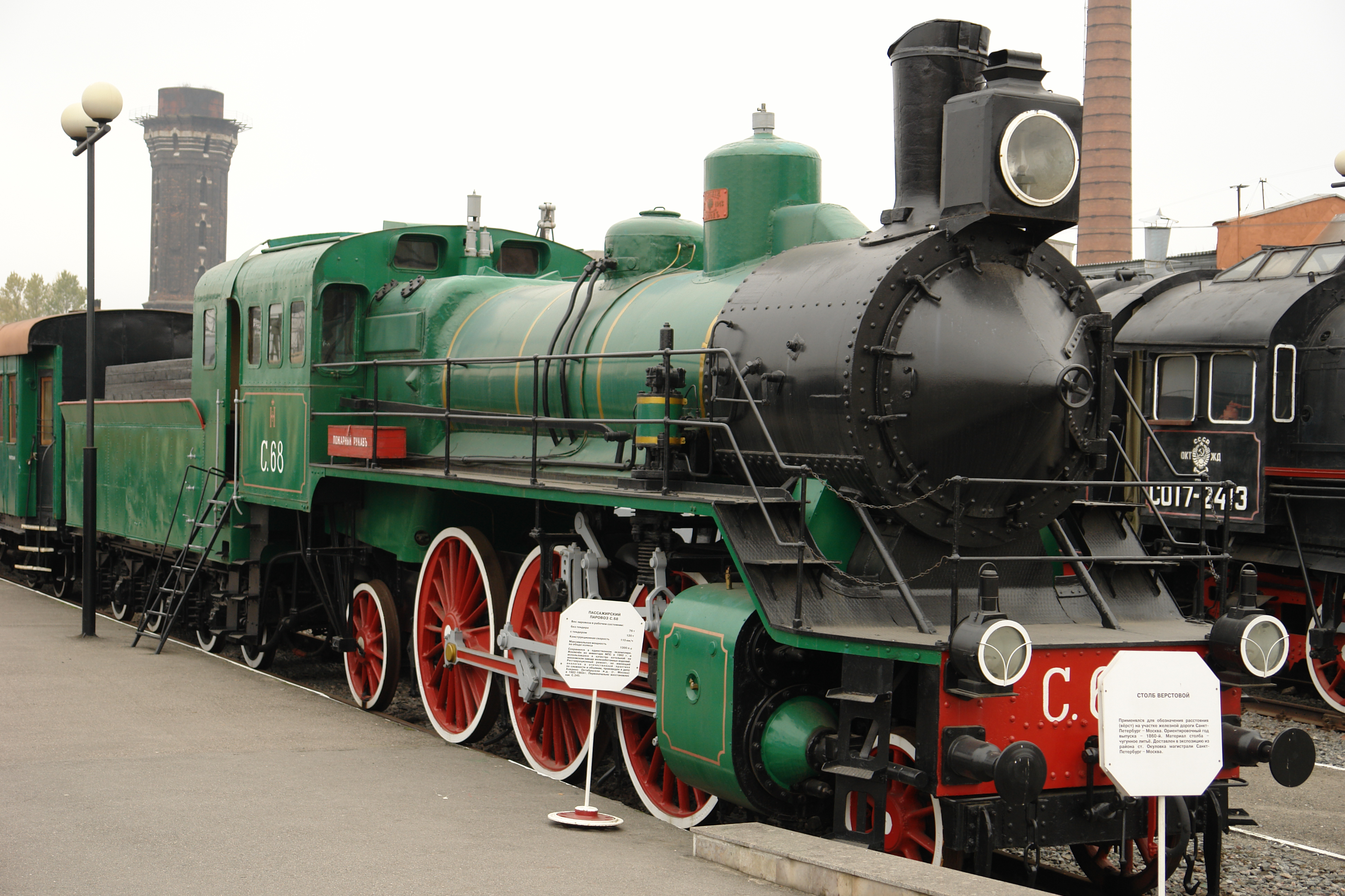 Passenger steam locomotive S.68 Weight in working order:excluding tender76t.including tender120t.Design speed115 kphMaximum power at wheel rim1300 hp The sole survivor of this class. Withdrawn by the MPS in 1960 and used as a stationary boiler at a Moscow factory which made concrete products. , An unprecedentedly complex restoration effort was undertaken at the October Railways Khovrino locomotive depot (Moscow) in 1982-3. ^ It was initially restored as S-245